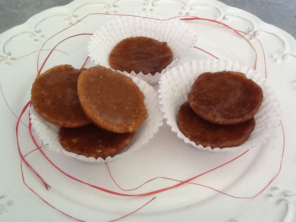 A tameletjie is a homemade sweet and features predominantly within the Afrikaans and Malay cultures of South Africa. The sweet is made from sugar and water and boiled until caramelized and then rested to cool to form a hard sweet. There are many variations to the sweet attained by adding almonds, pine nuts or coconut to the recipe. Tameletjie is sometimes made by dads for their children on special occasions.